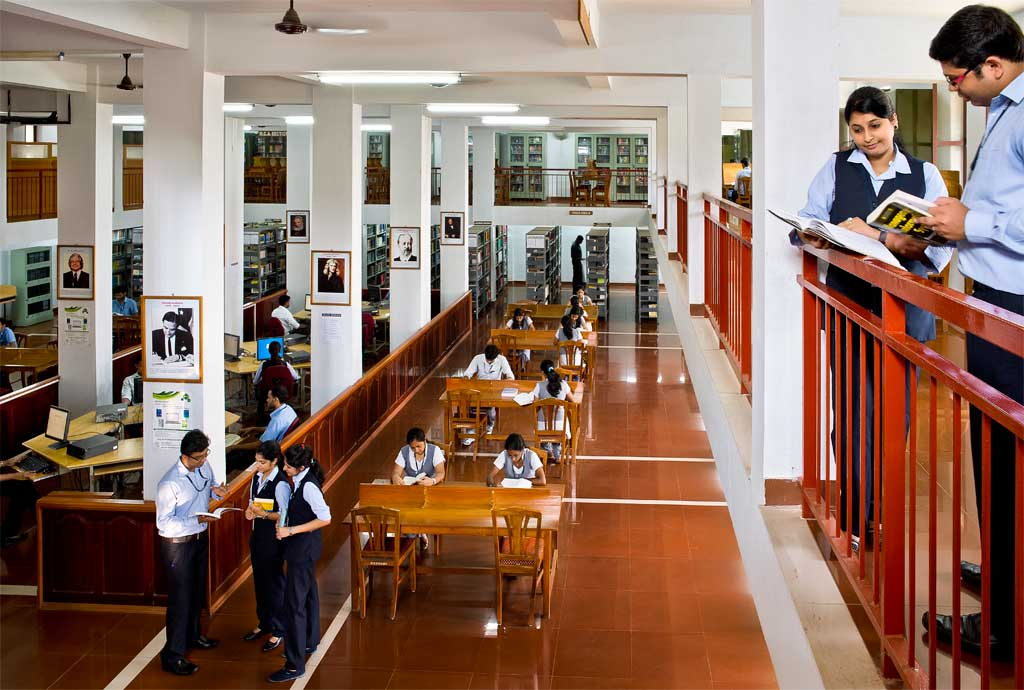 SJCET PALAI Library